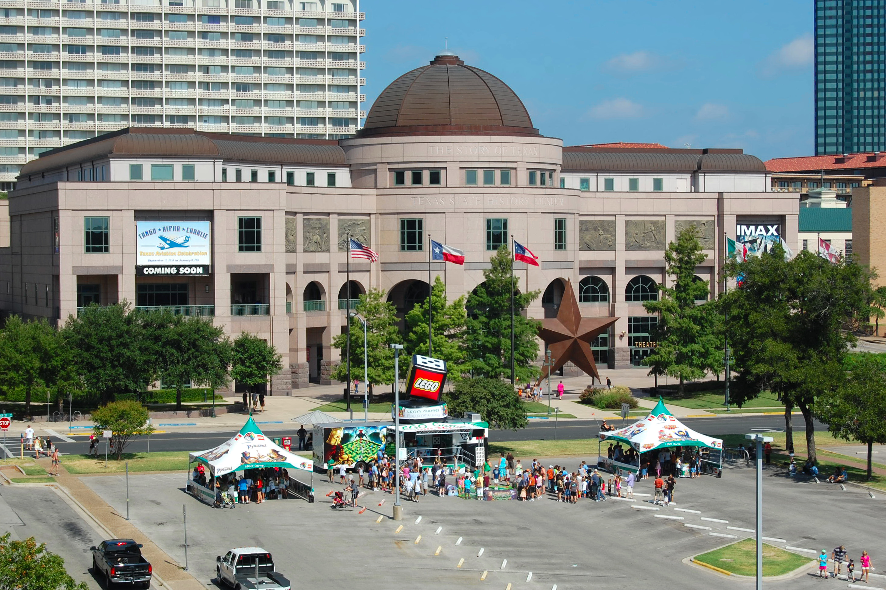 Bob Bullock Texas State History Museum i9n Austin, Texas